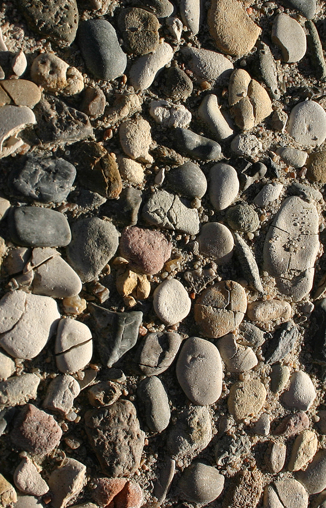 close up of washed-out concrete